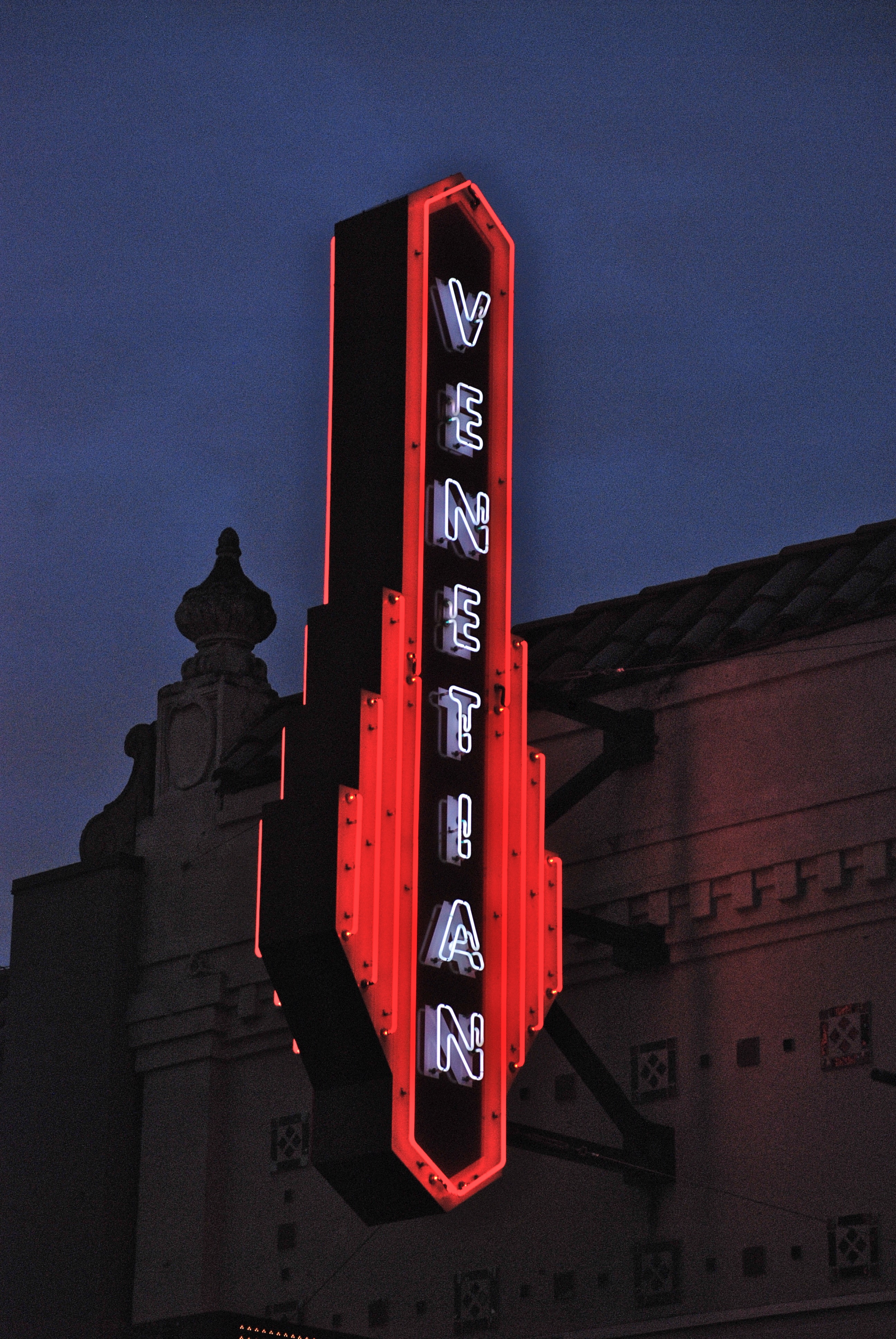 The main sign of the Venetian Theatre in downtown Hillsboro, Oregon, at dusk.